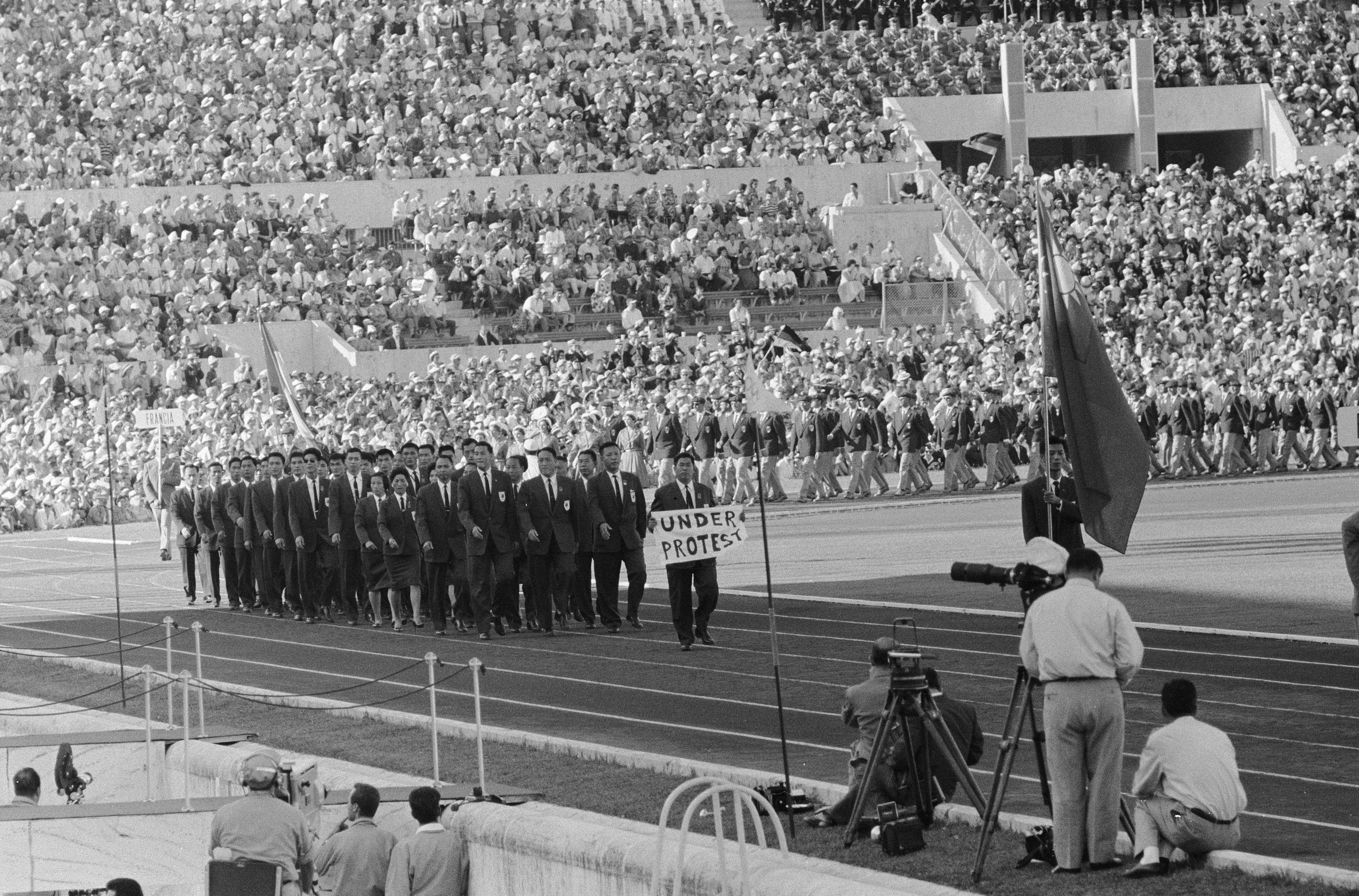 Team of Taiwan in the name of Formosa (abbreviation TWN) right in front of the Team of France at the opening ceremony